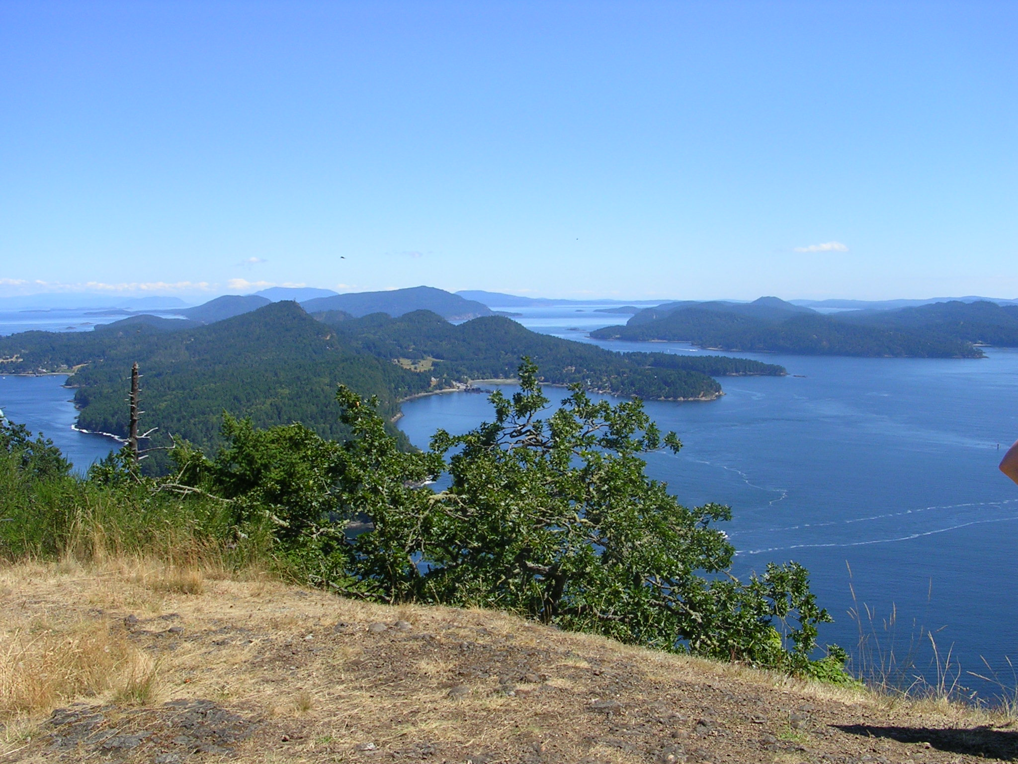 Taken by user:Clayoquot in 2006